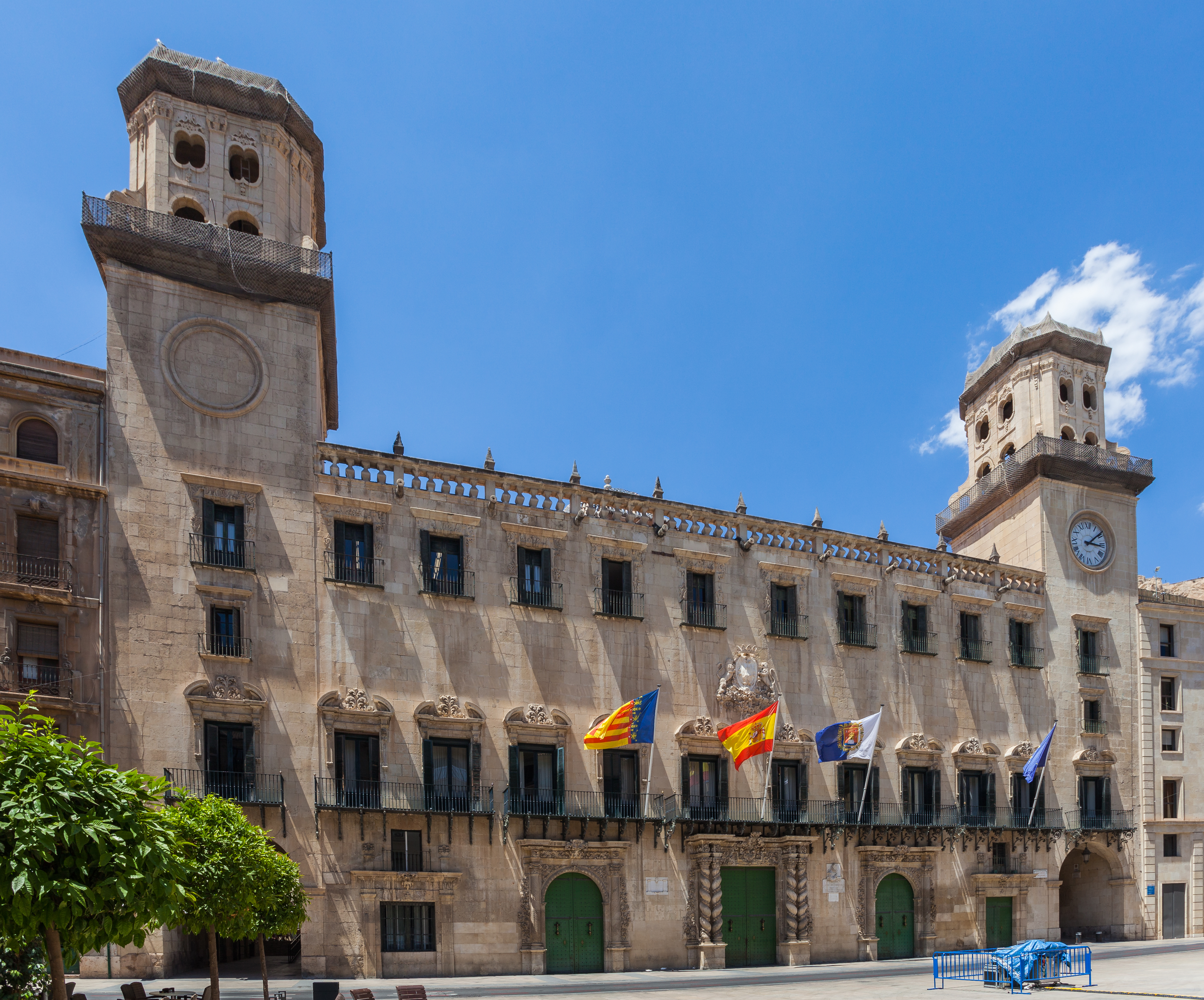 Alicante town hall, Spain